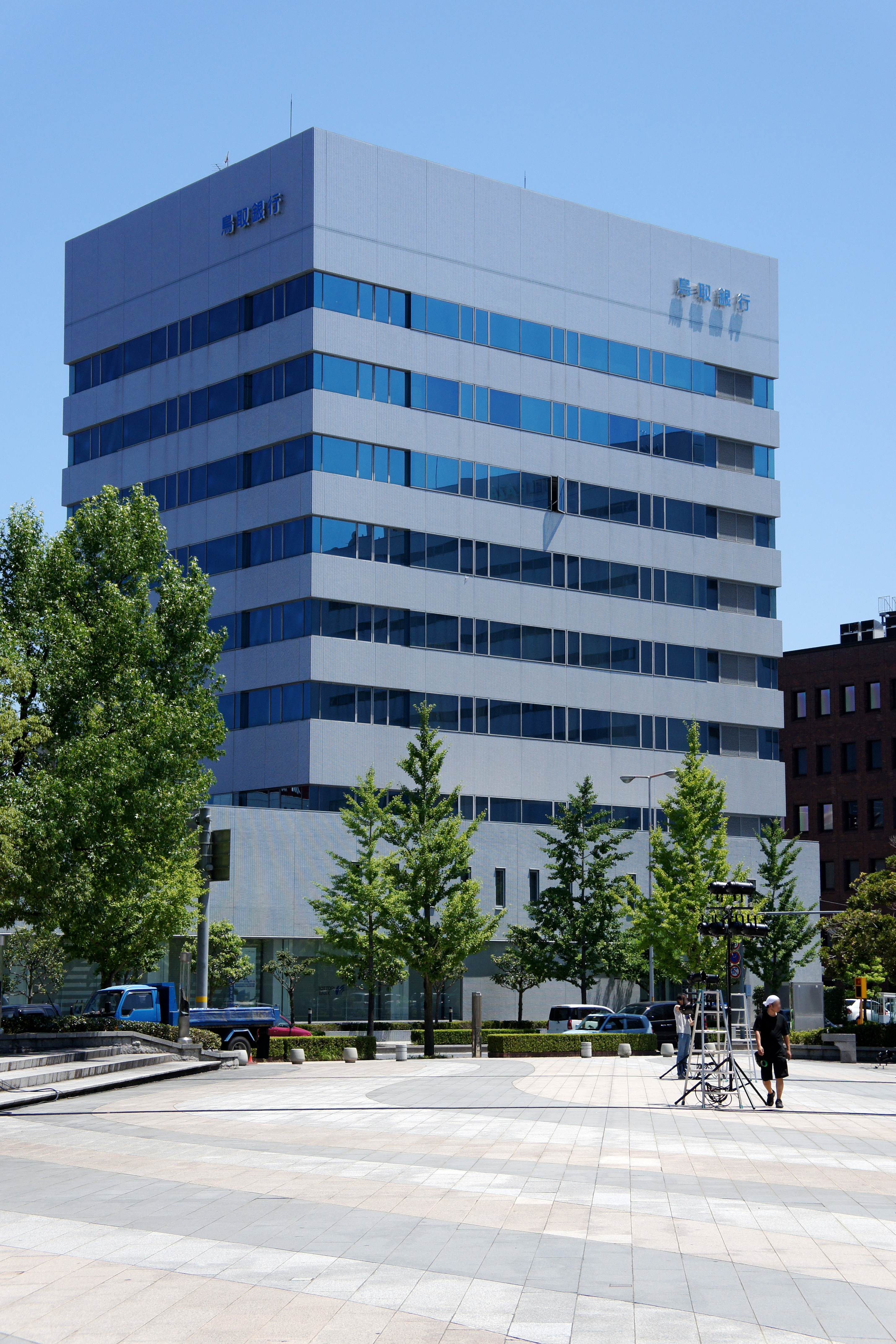 Tottori Bank headquarters in Tottori, Tottori prefecture, Japan.